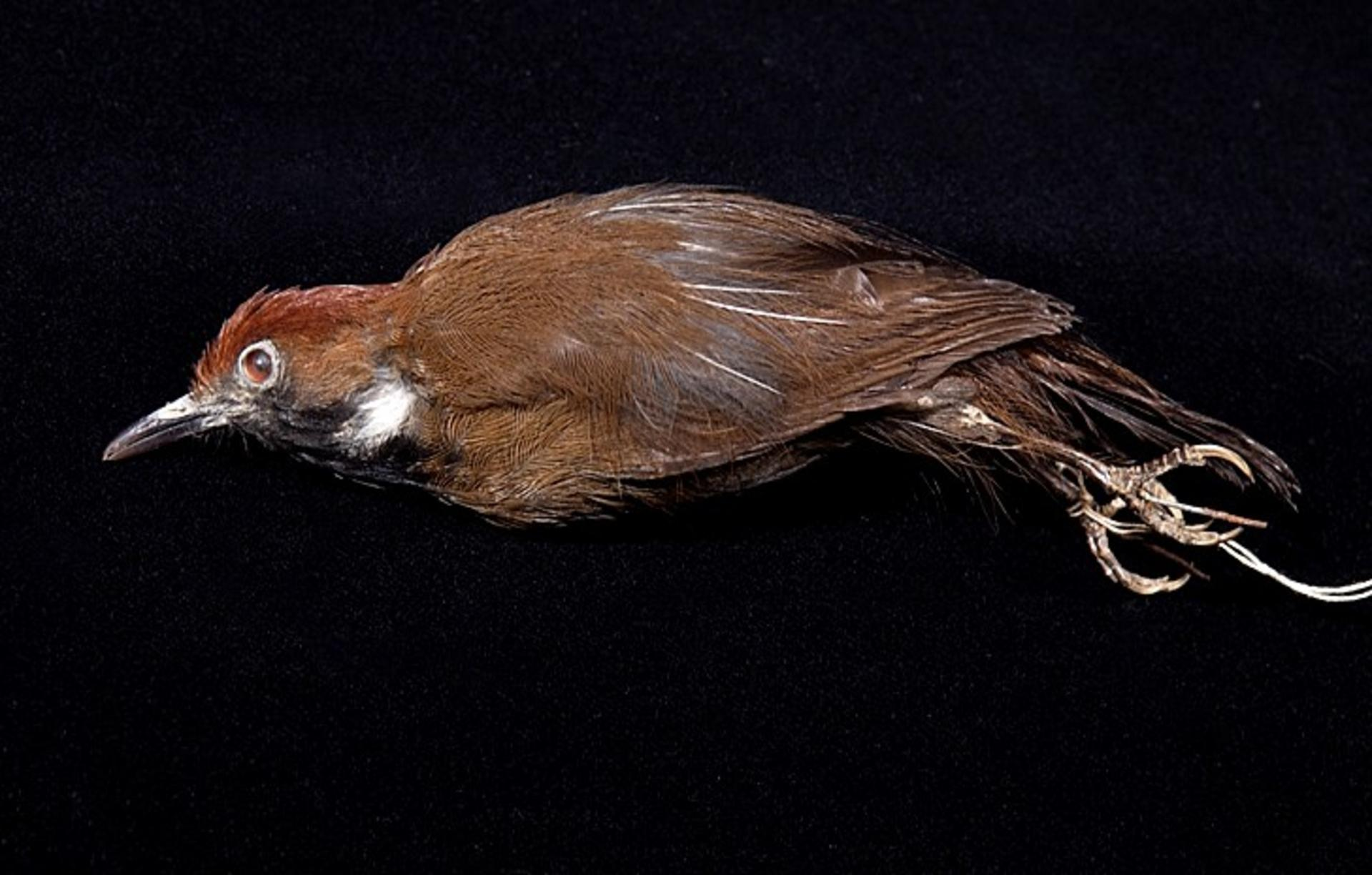 Macronous ptilosus trichorrhos Temminck, 1836